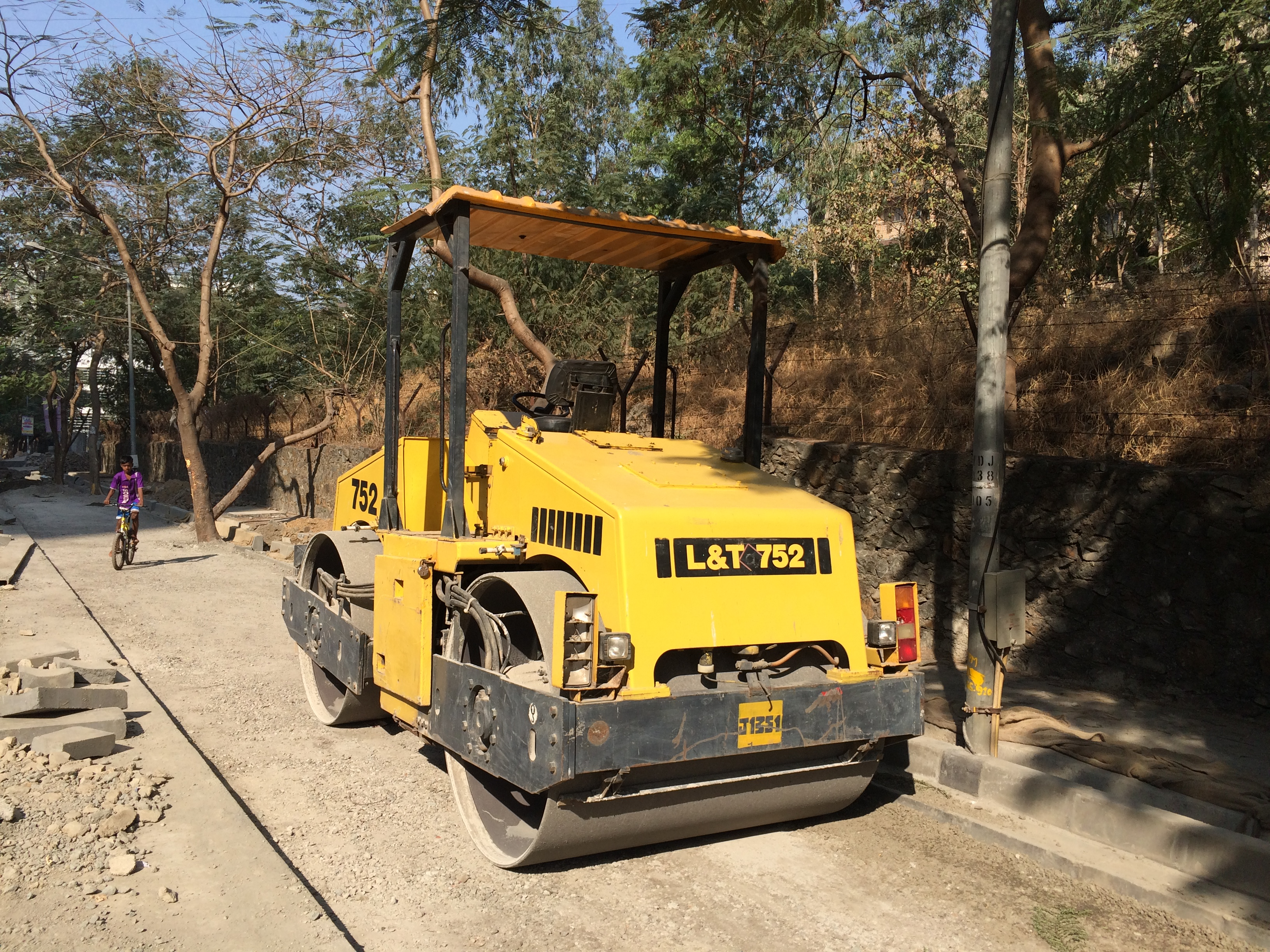 L&T 752 Road Roller 201